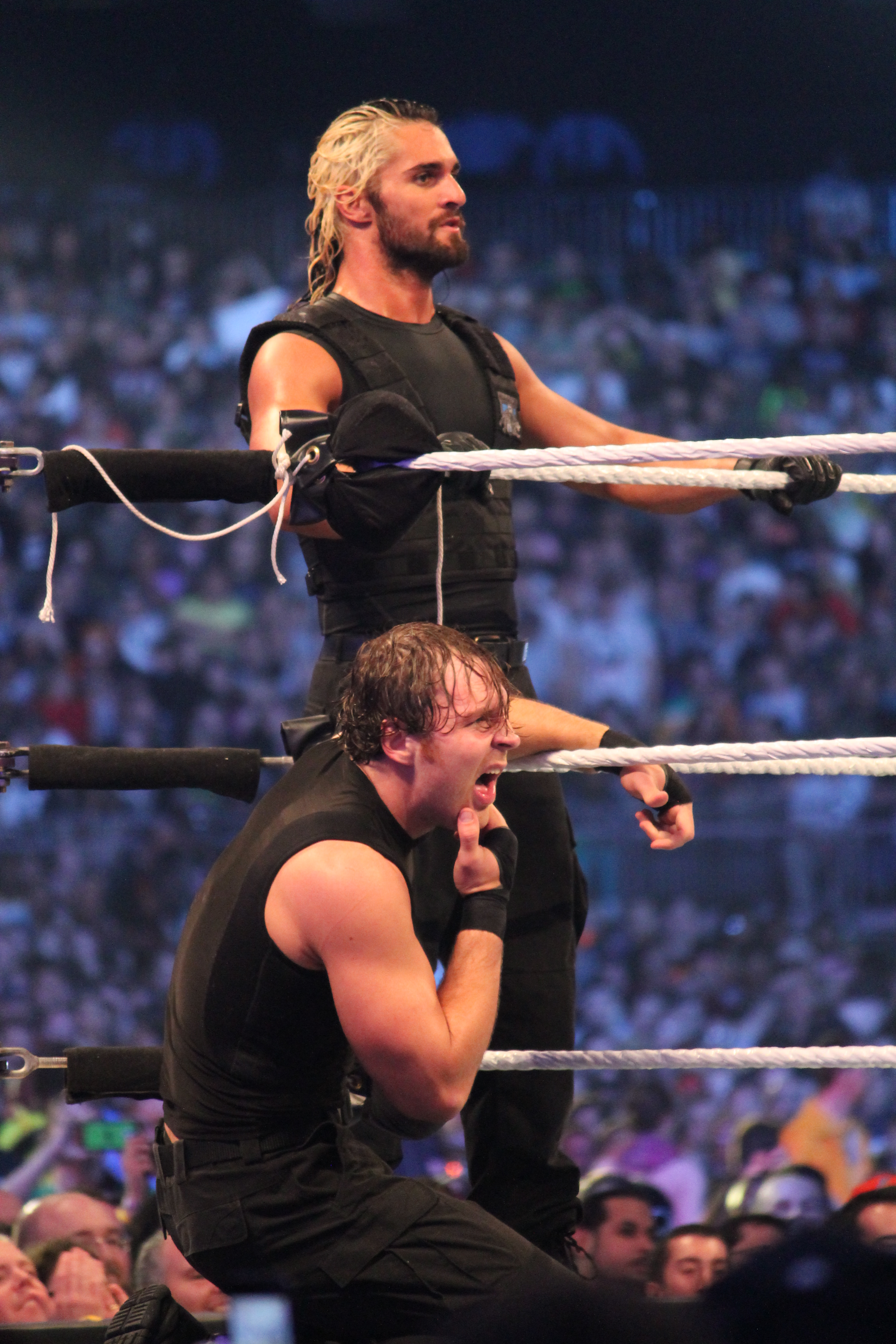 Dean Ambrose (bottom) and Seth Rollins at WrestleMania XXX on 6 April 2014 in the Mercedes-Benz Superdome in New Orleans, Louisiana.